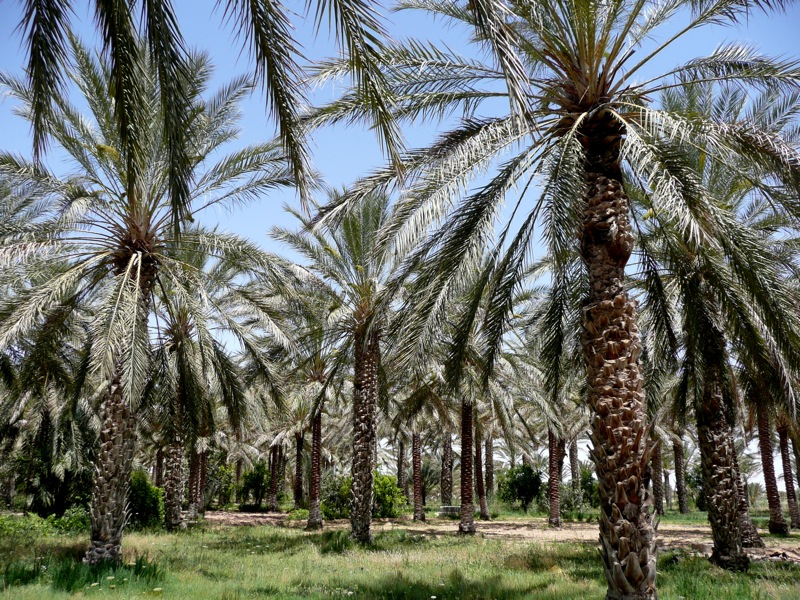 Douz or Dūz (Arabic: دوز) is a town in central Tunisia, known as the "gateway to the Sahara." In previous times it was an important stop on the trans-Saharan caravan routes. Today, it is destination for tourists who are interested in seeing the desert, and a starting point for desert treks by camel, motorcycle, or four-wheel-drive vehicle. Douz is a major palm oasis and as such a large producer of "diglat noor" dates.